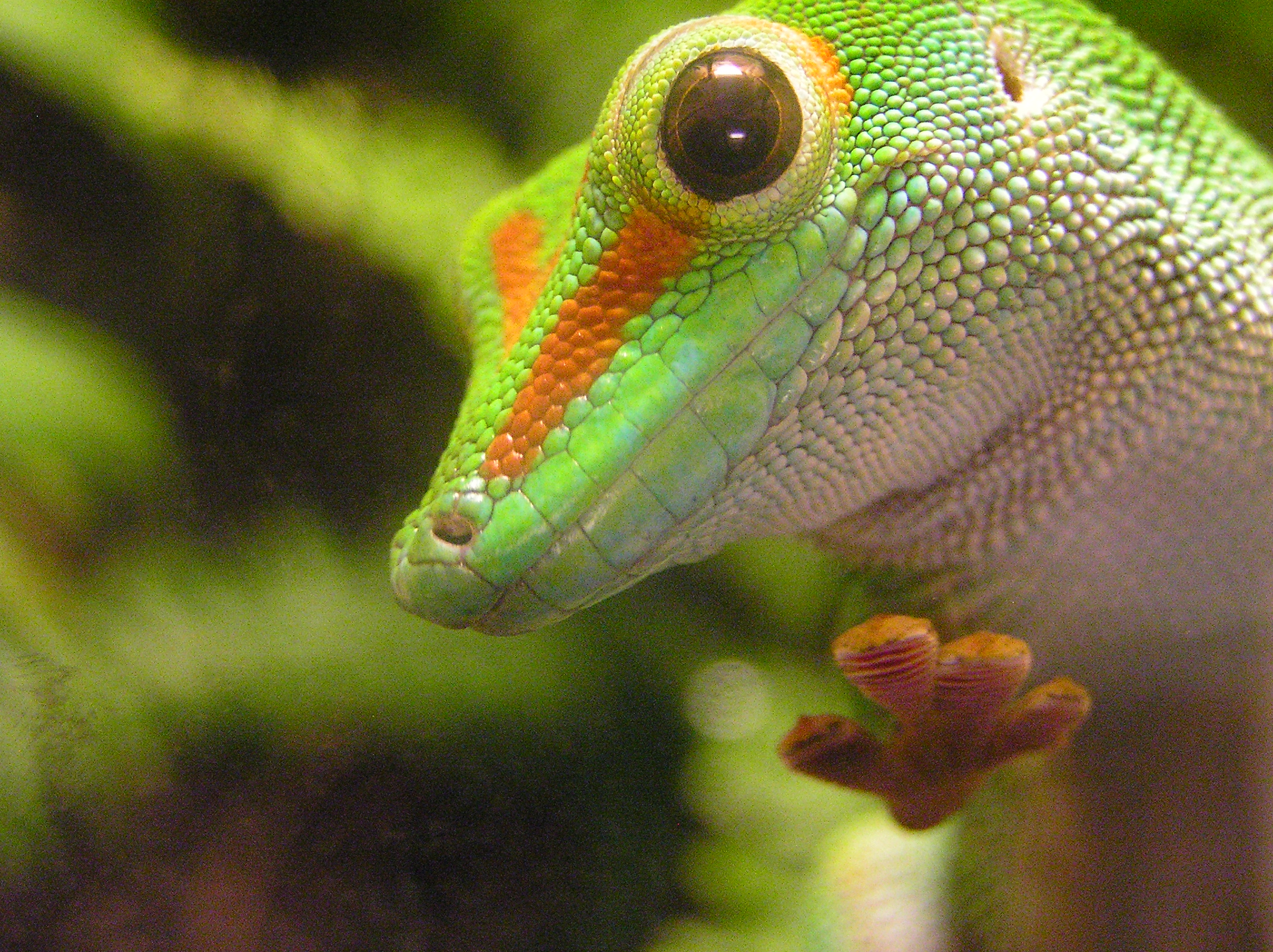 A Madagascar Day Gecko (Phelsuma madagascariensis) in the Antwerp Zoo.